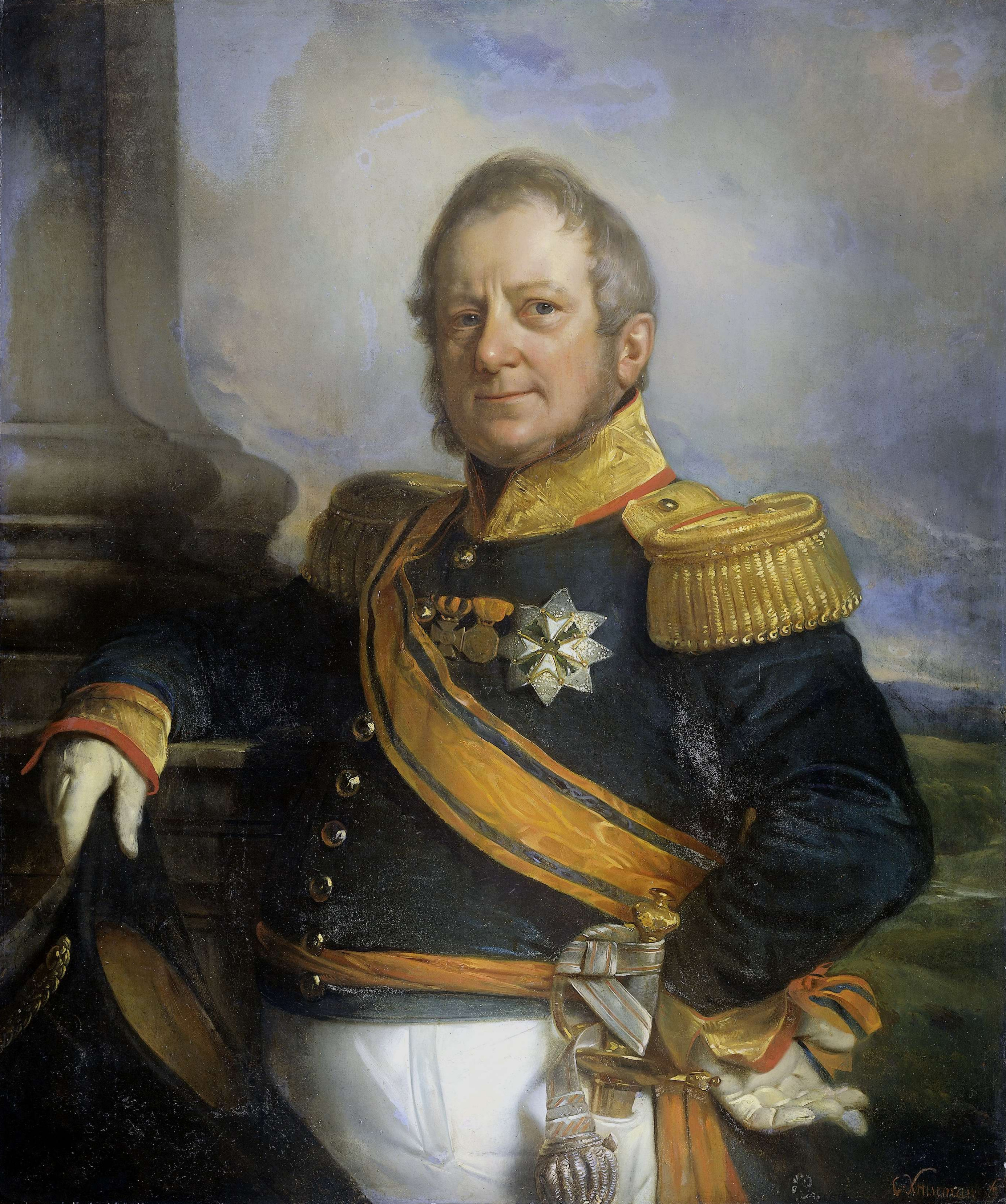 Portrait of Hendrik Merkus, Baron de Kock, army commander and after 1826 lieutenant governor general of the Dutch East Indies. Standing, at half-length, holding a bicorne in his right hand, leaning against the base of a column, his left hand on his side. On the background a landscape. Partof the Governor-general series.